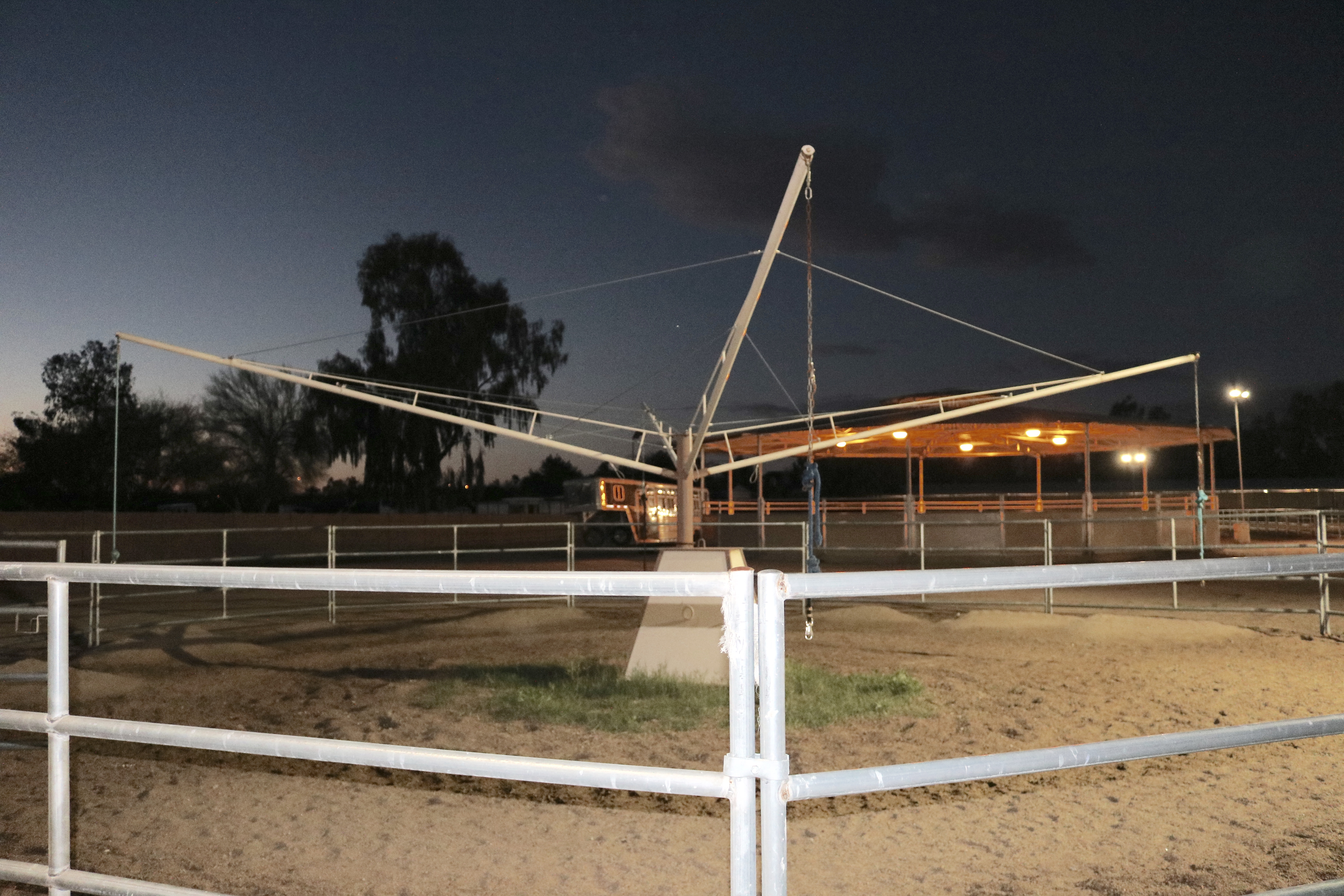 A US style mechanized hot walker for 4 horses, each rope hanging down is attached to a horse's halter. This one is in Scottsdale, Arizona.